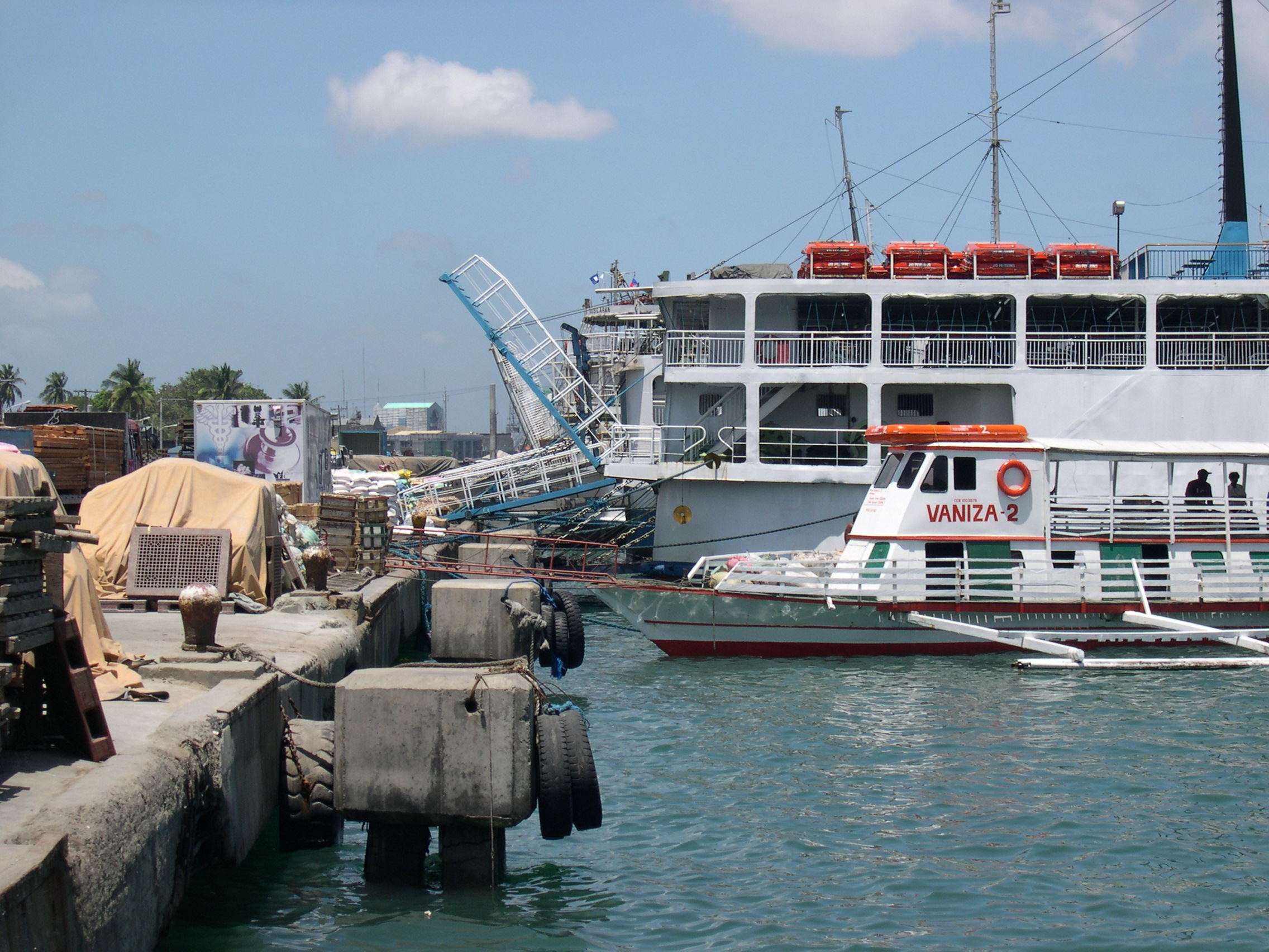 The harbor of Cebu City, seen from pier 1. Picture taken by Magalhães on March 24th 2006